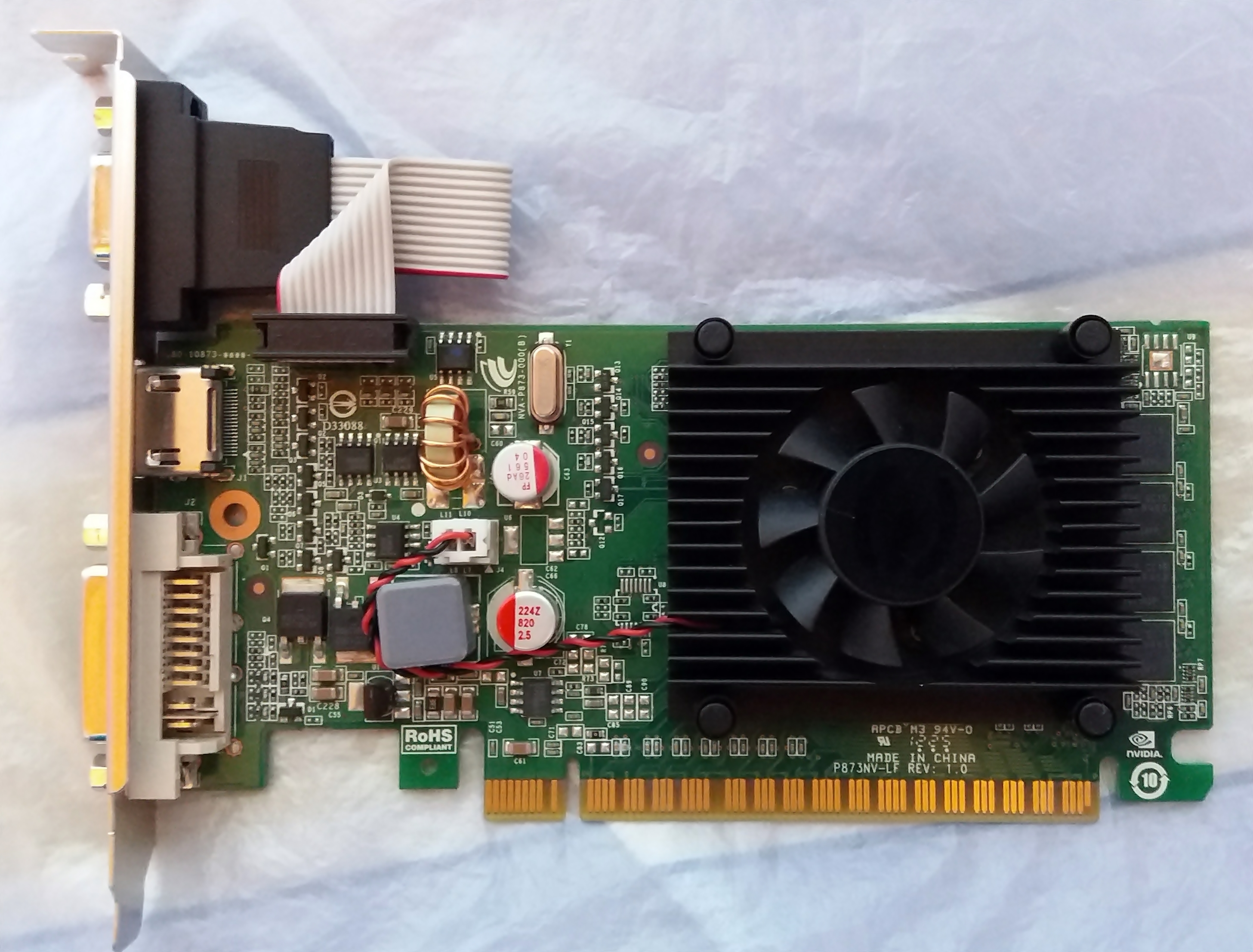 NVidia GeForce 8400 GS 1GB PCI-E 16x